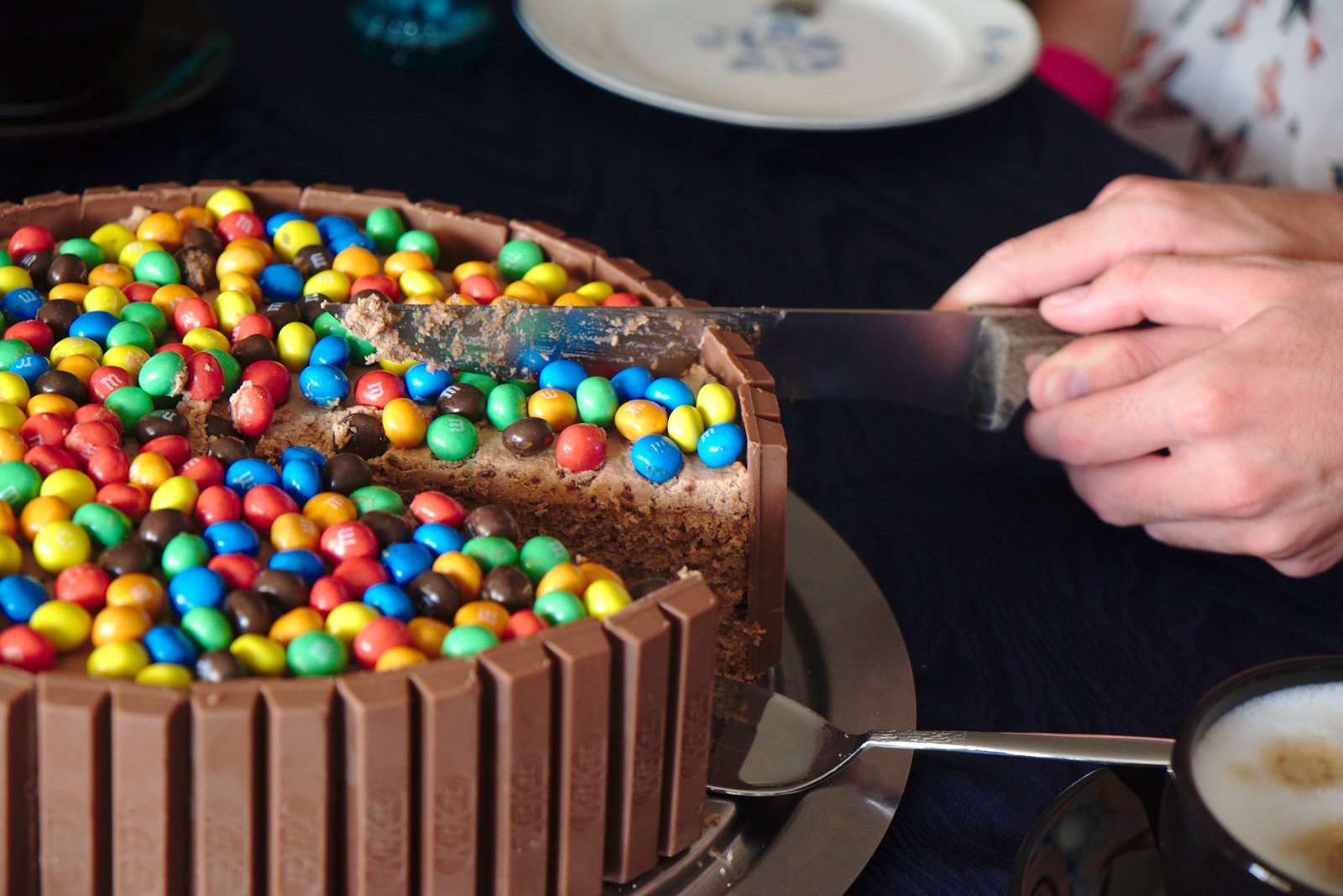 500px provided description: Blogpost: [#summer ,#cake ,#colorful ,#kitkat]